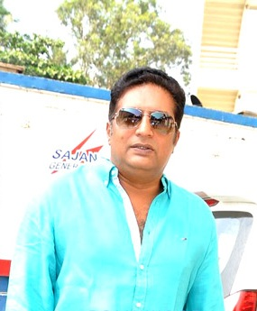 Actor Prakash Raj at the theatrical trailer launch of the 2014 Indian Hindi film Entertainment.